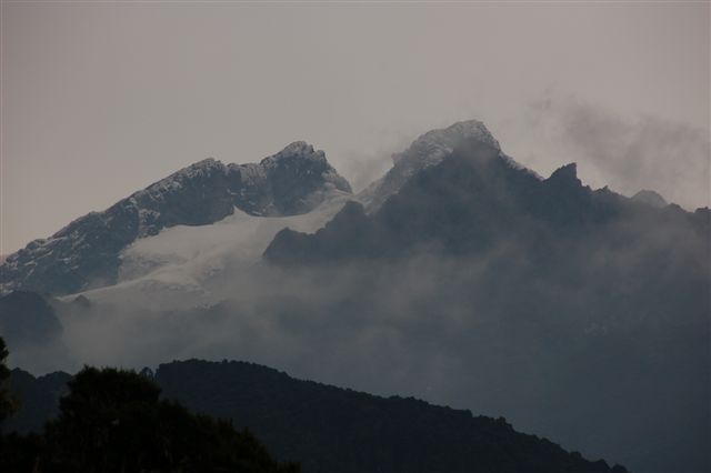 A view of Mount Stanley from John Matte Hut 3414m, in the Ruwenzori Range, Uganda, also known as Mount Ngaliema